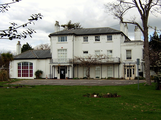 Crayford, Manor House. Crayford Manor House in Mayplace Road East was reconstructed in 1816 from an earlier building dating from around 1768, some parts of which still remain. Members of the Barne family (who lend their name to the nearby Barnes Cray Estate) lived here until 1847. It was acquired by Crayford Urban District Council in 1938 and became a community centre in 1949. It's now the headquarters of the Bexley Voluntary Service Council.